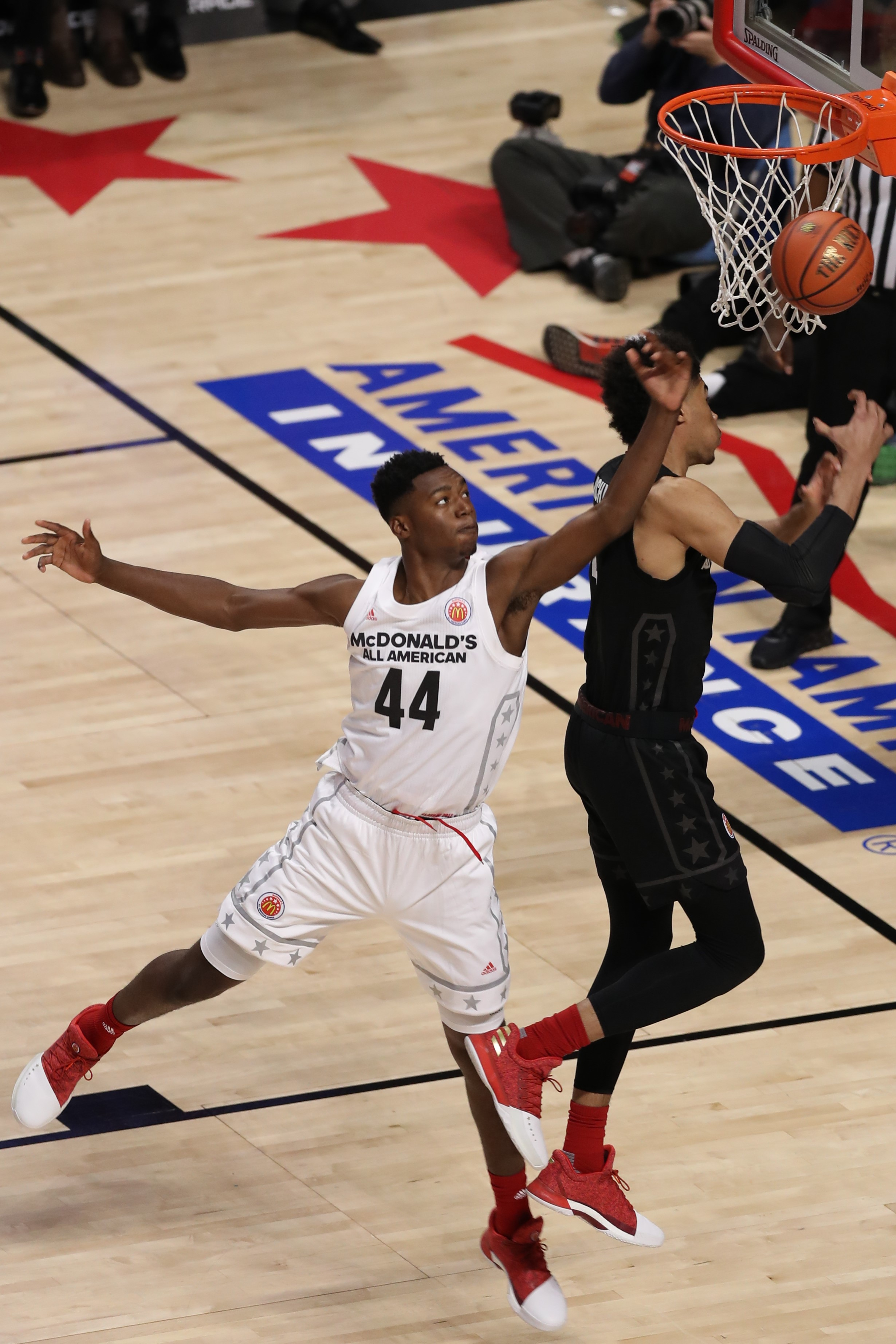 Brandon McCoy and Nicholas Richards at the w:2017 McDonald's All-American Boys Game